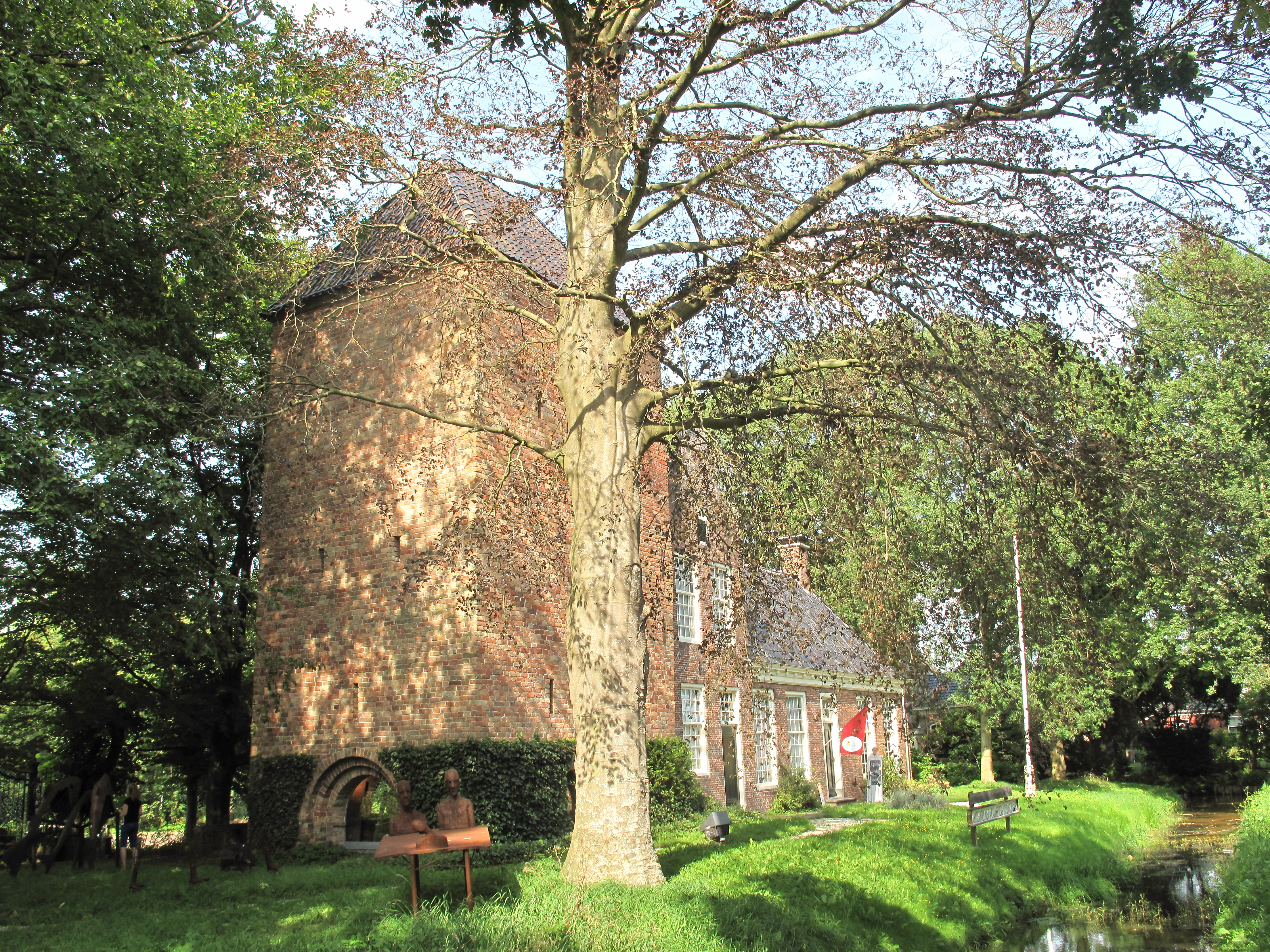 Feanwâlden, castle: de Schierstins